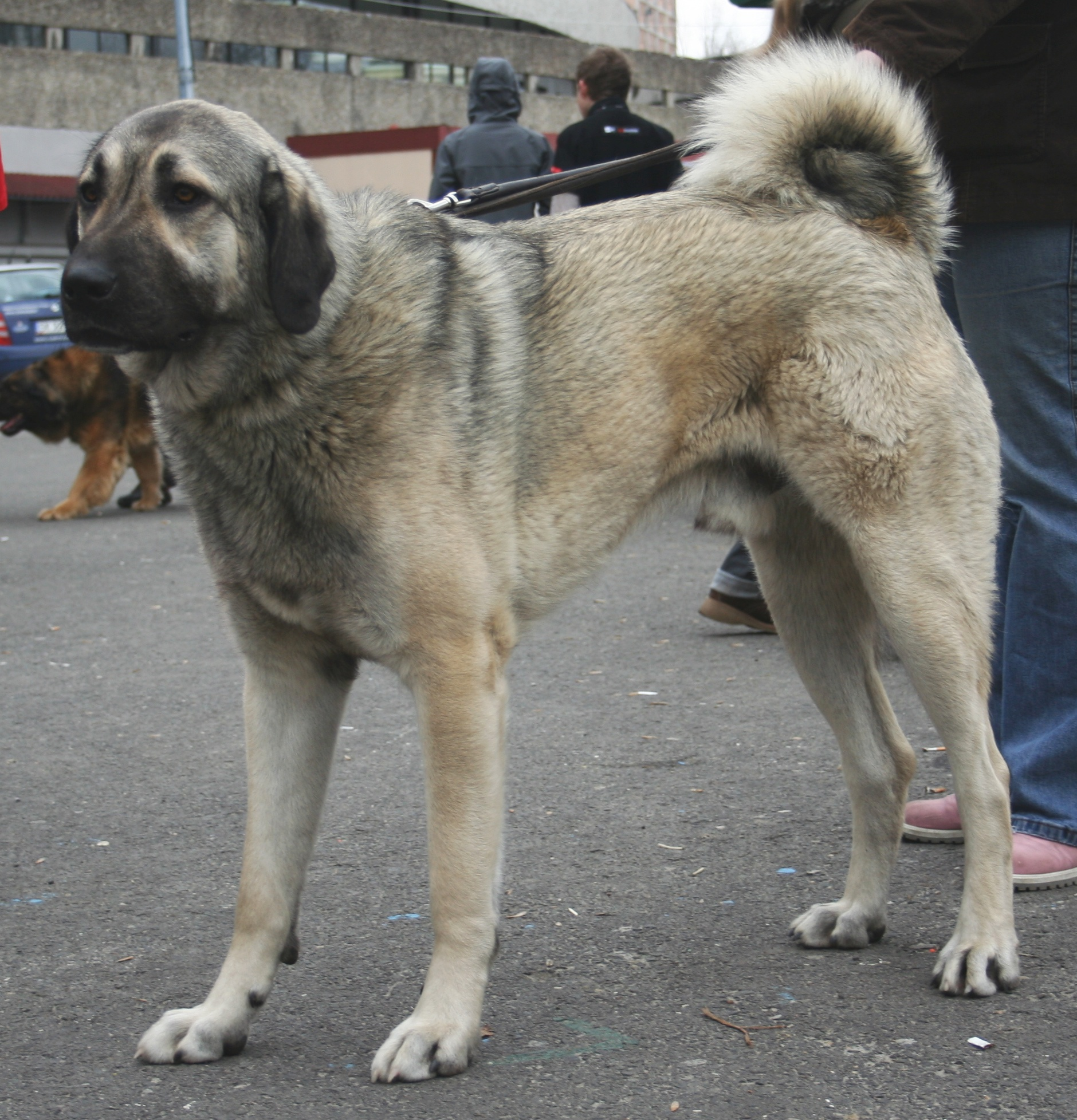 Anatolian Shepherd Dog during the international dogs show in Katowice, Poland